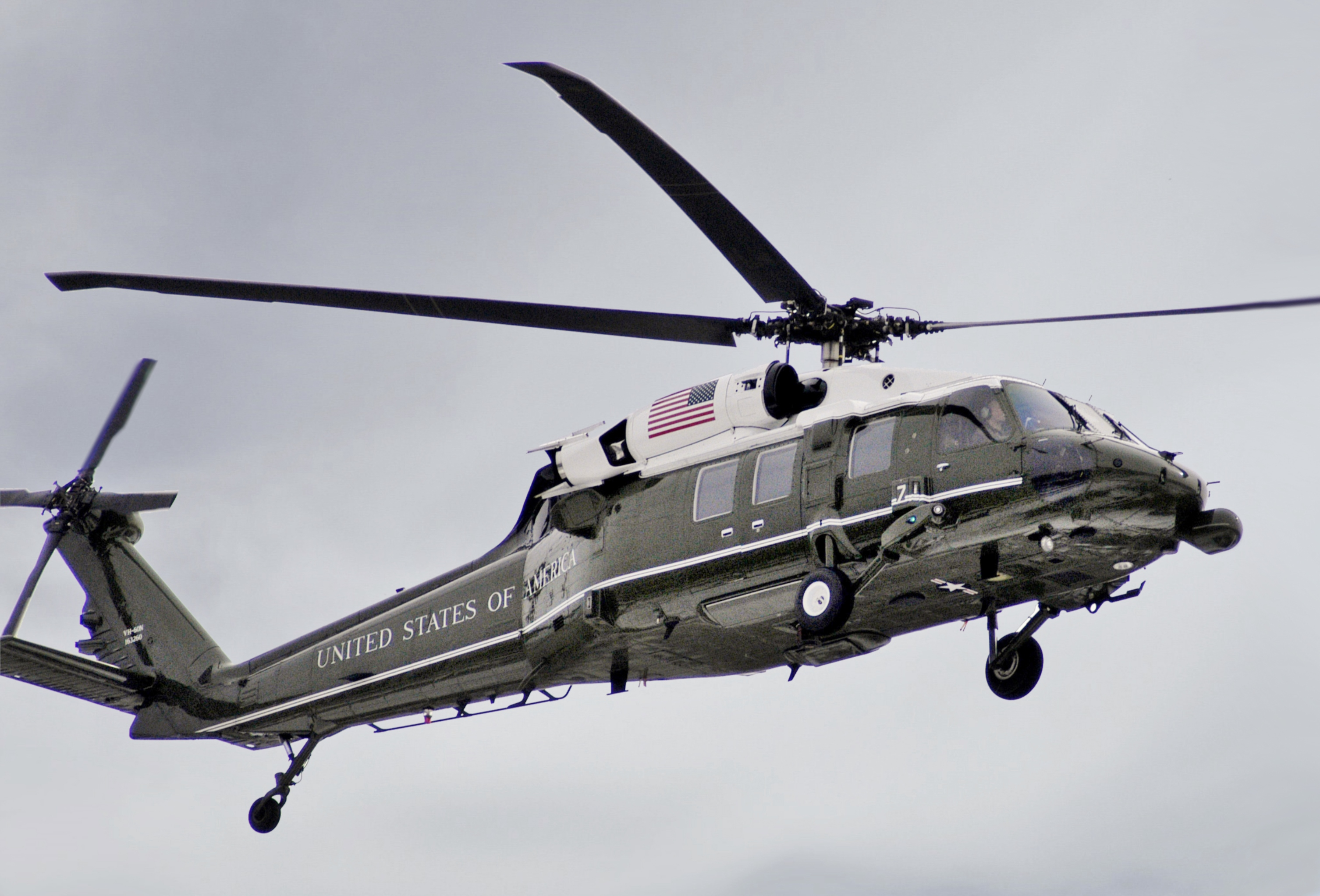 A VH-60N Whitehawk executive transport helicopter, assigned to Marine Helicopter Squadron One (HMX-1), flies over the Potomac River in Washington, D.C., en route to the White House. The VH-60N is a twin engine, all-weather helicopter that supports the executive transport mission for the President of the United States.